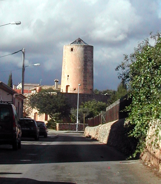 Pottery Museum, Sa CabanetaMarratxí